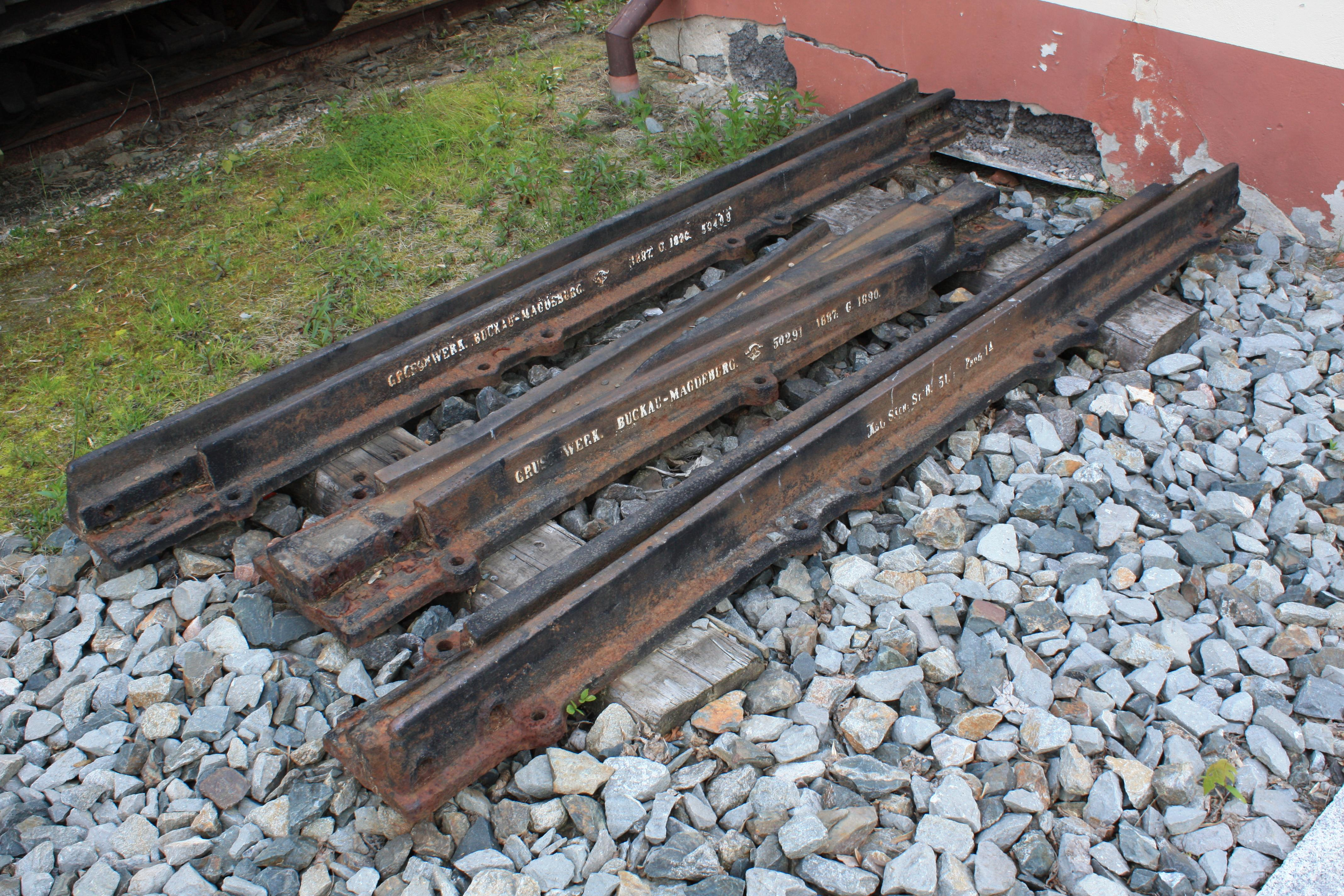 Narrow Gauge Switch, Rittersgrün Station